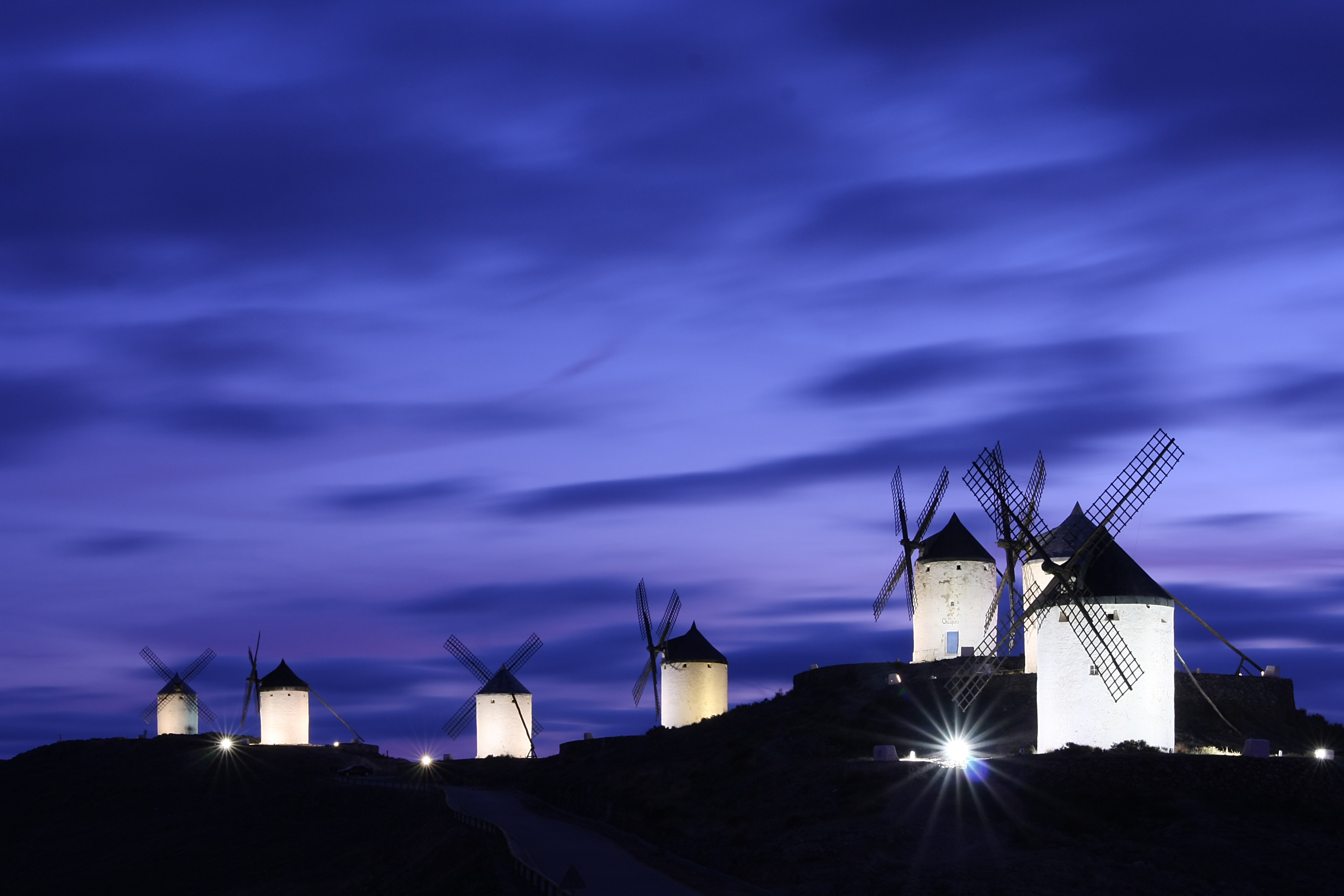 The Windmills of Consuegra (Castilla-La Mancha, Spain), seen at dusk in the image, were built in the first half of the 19th century and were proclaimed a Spanish Historical Site in 2008.